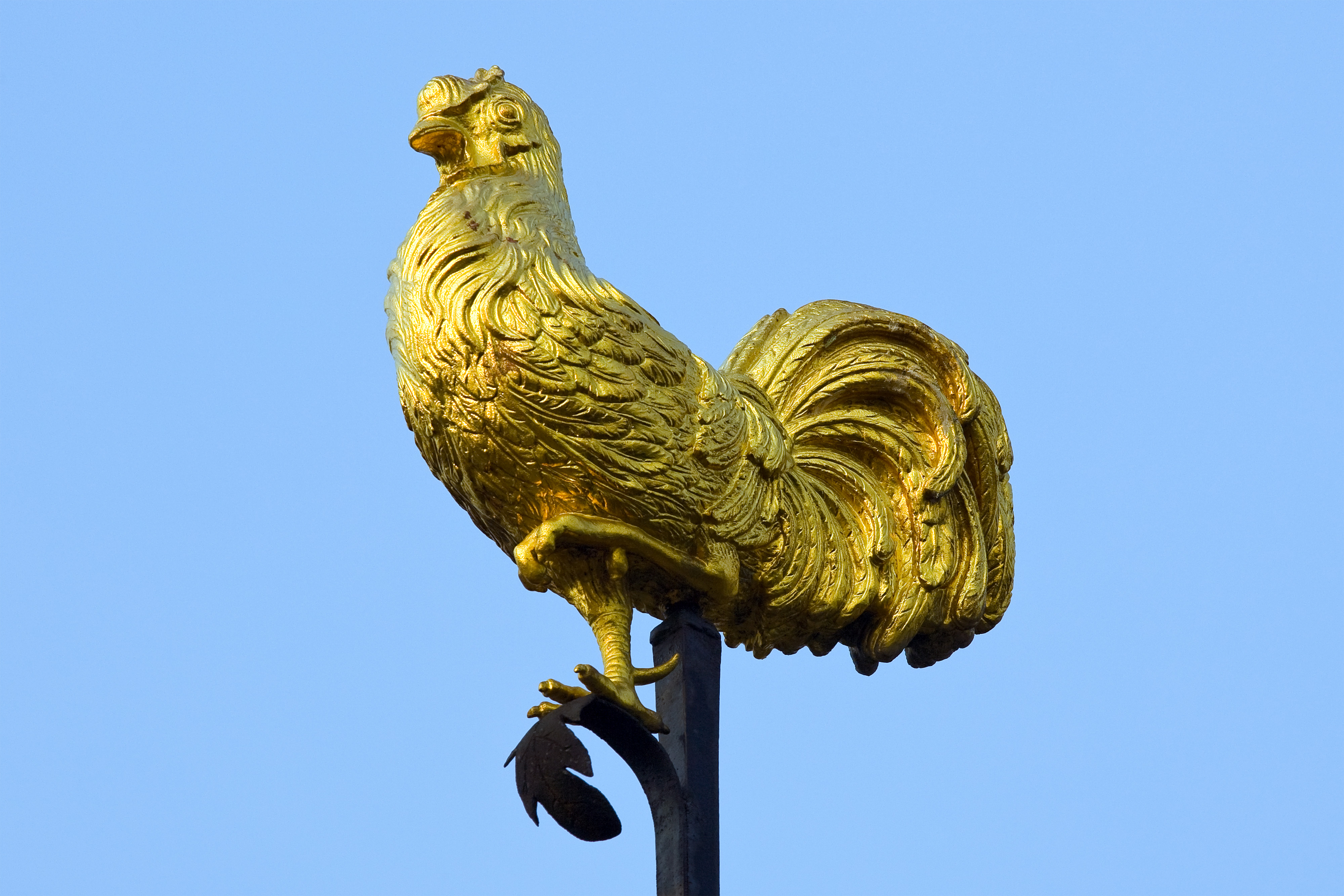 Frankfurt on the Main: Alte Bruecke (Old Bridge), detail of the Brickegickel